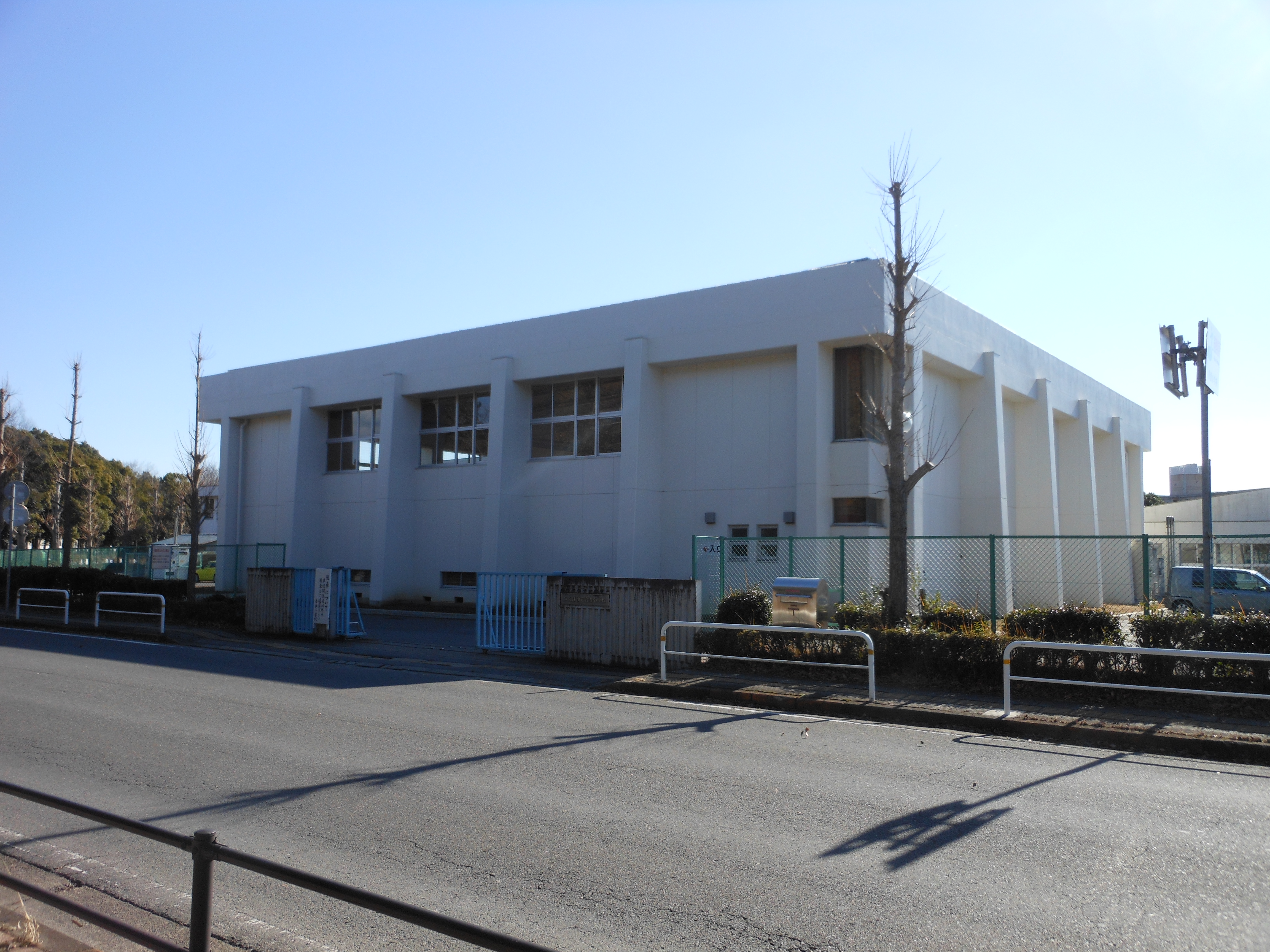 This is a gate of Tsukuba city Azuma elementary school in Azuma, Tsukuba, Ibaraki, Japan.